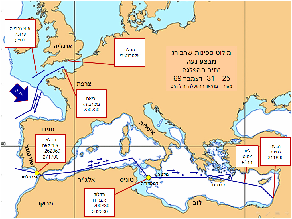 Israel Defense Forces